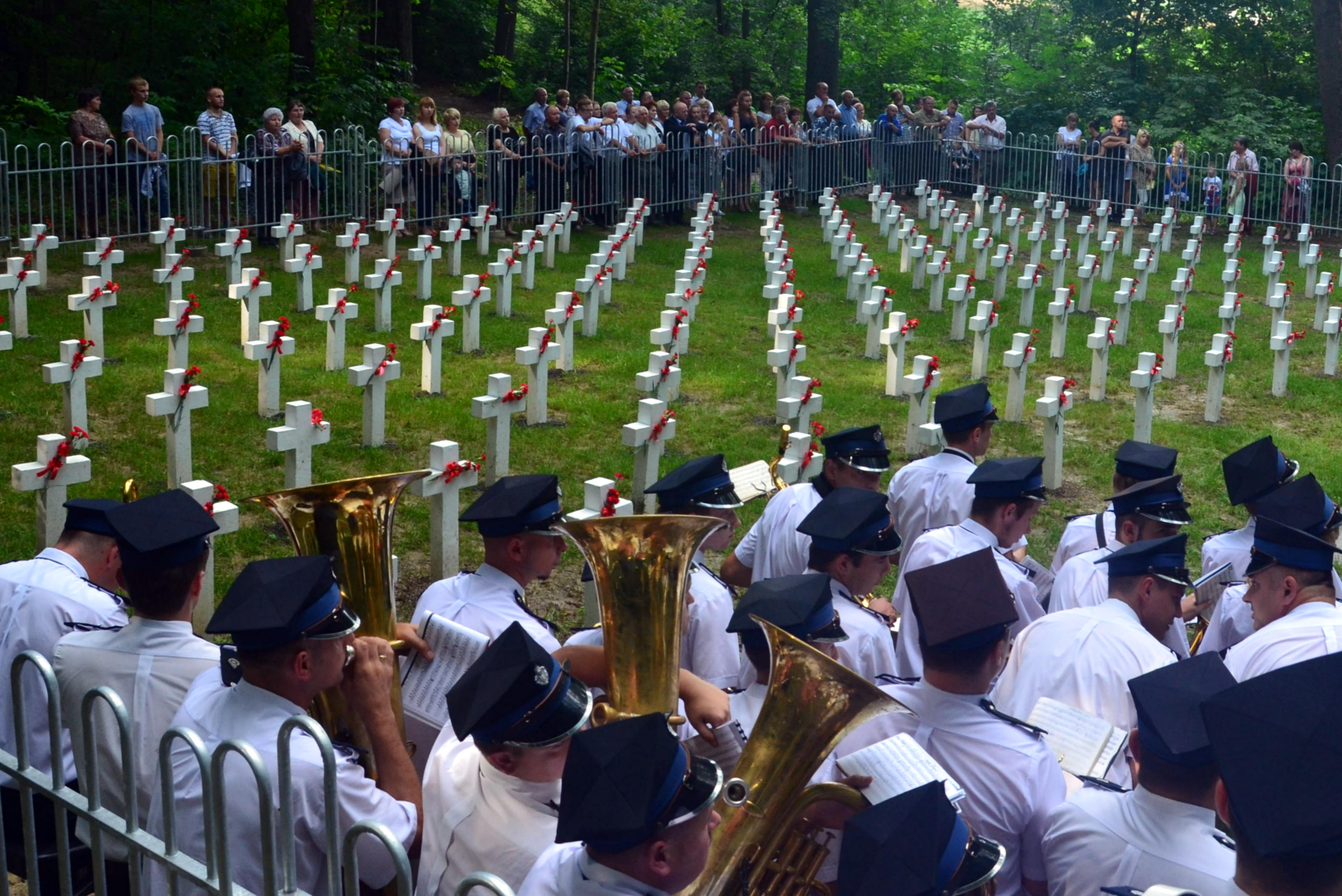 World War I Cemetery in Mymoń